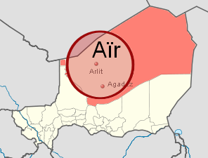 Map with the location of the Aïr Mountains, within the Agadez Region, where there is a large Twareg population.